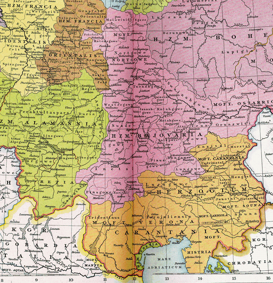 Duchy of Bajovaria, margravate of Ostarrichi and duchy of Carantania around the year 1000 AD (crop of the map Heiliges Römisches Reich um 1000), notations are a 19th century imitation of Old High German names, taken from various primary sources and brought to a synthetical ahistorical standard spelling.